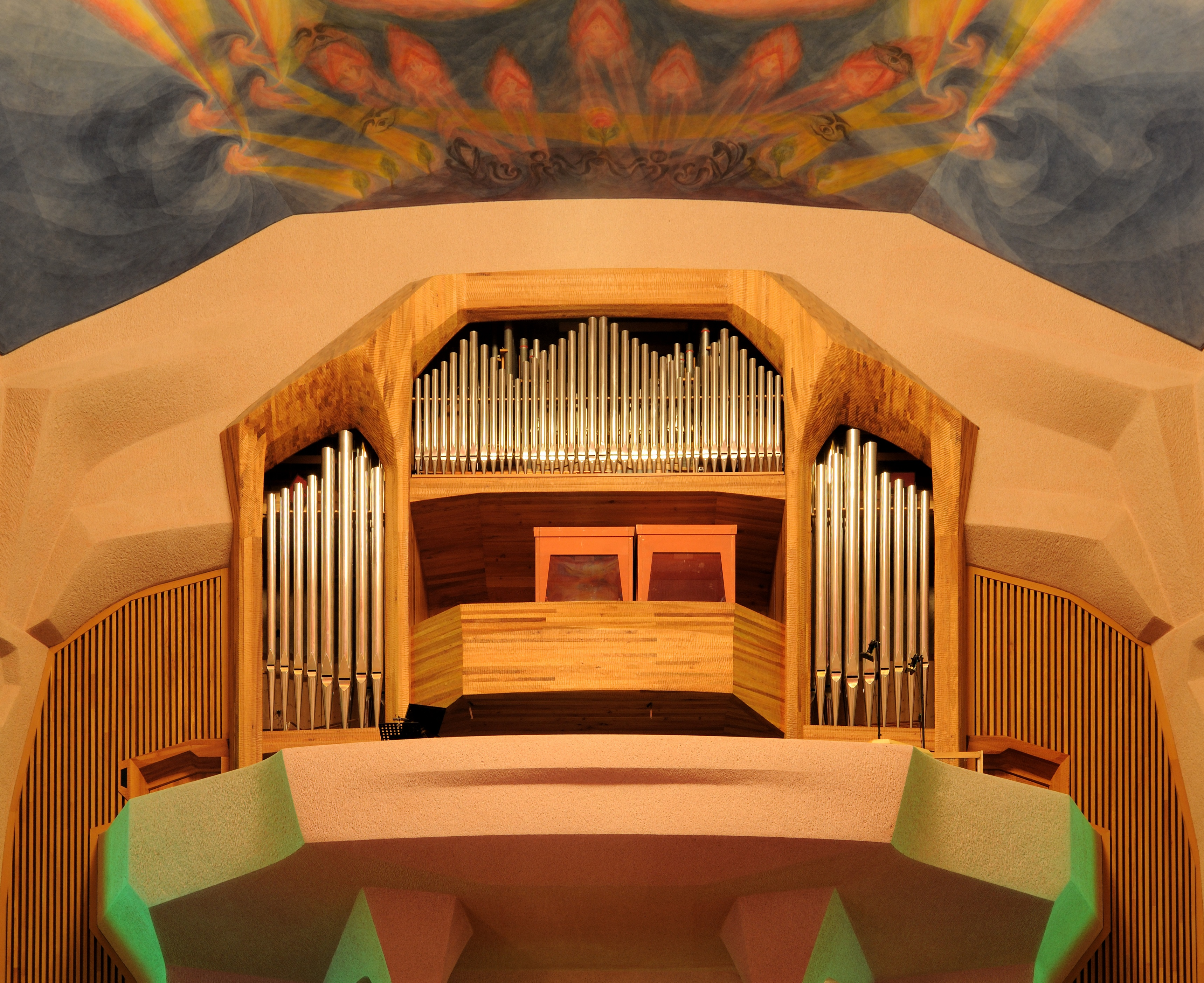 Goetheanum: pipe organ with gallery